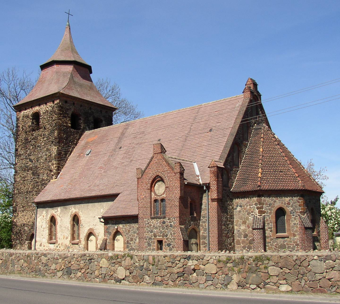 Church in Calau-Buckow in Brandenburg, Germany